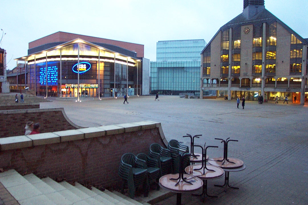 Grand-Place of Louvain-la-Neuve on the left the cinema, in the middle the Aula Magna, and right the Faculty of Theology.